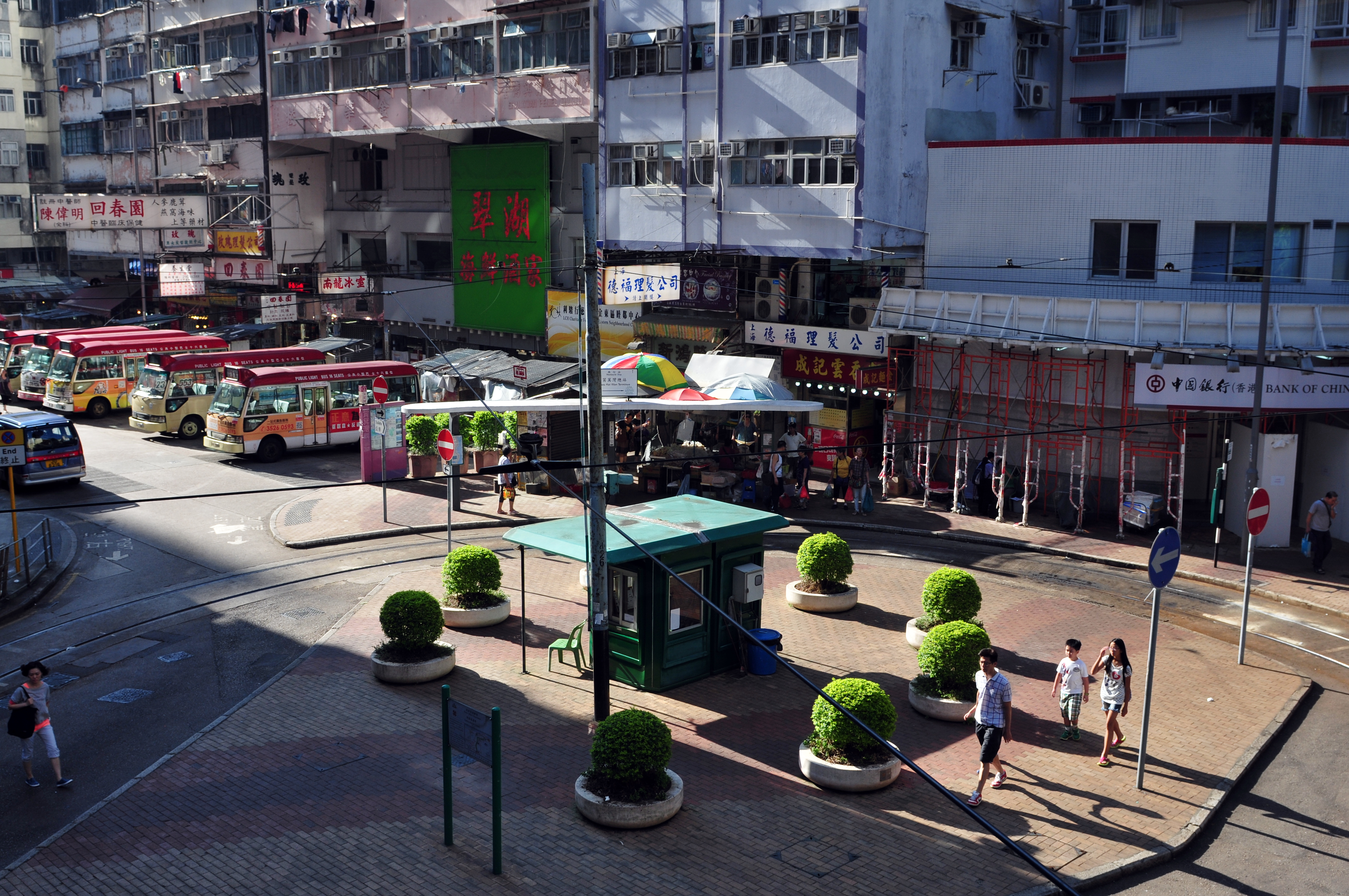 traffic szene in Hongkong